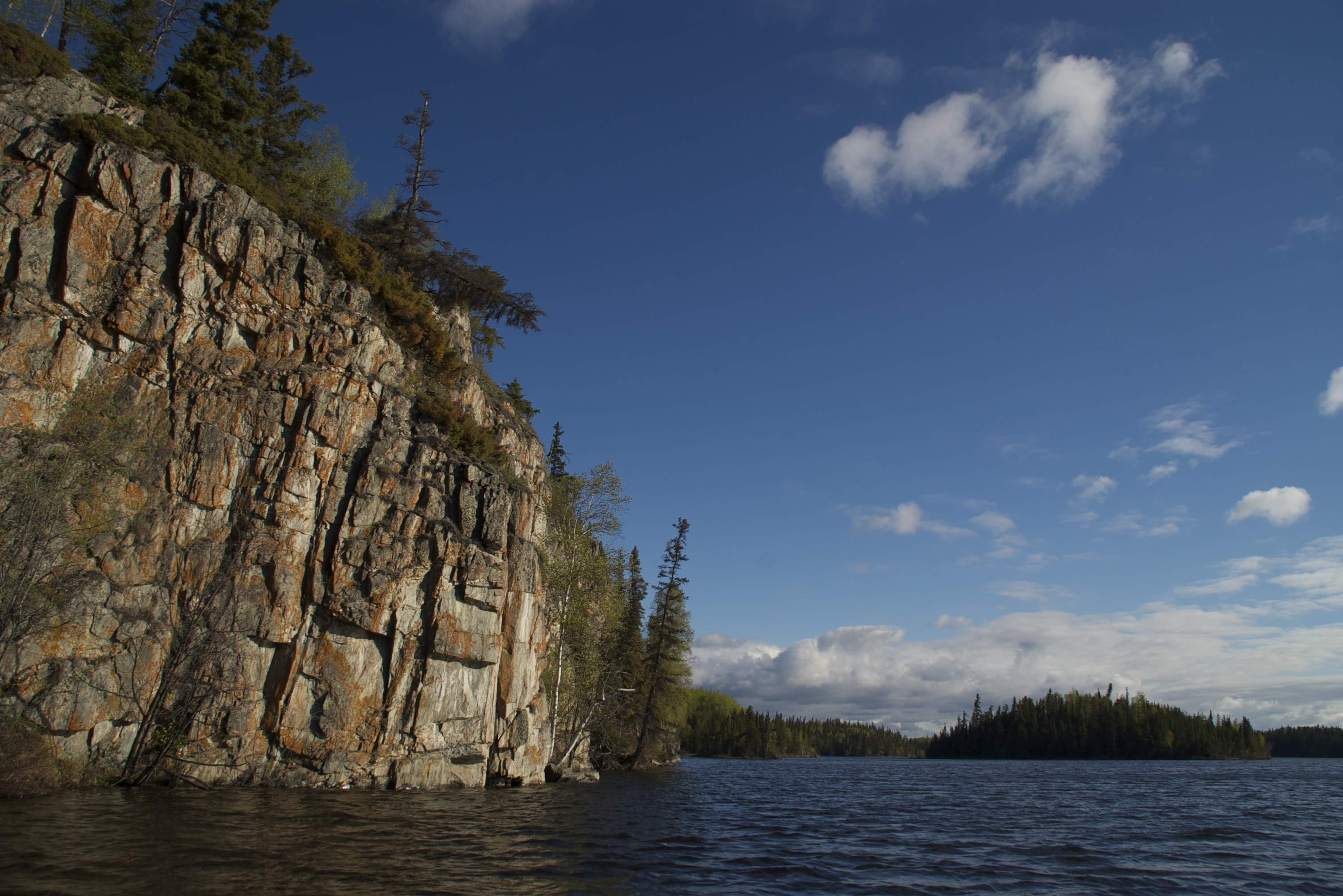 Near North Star mine site